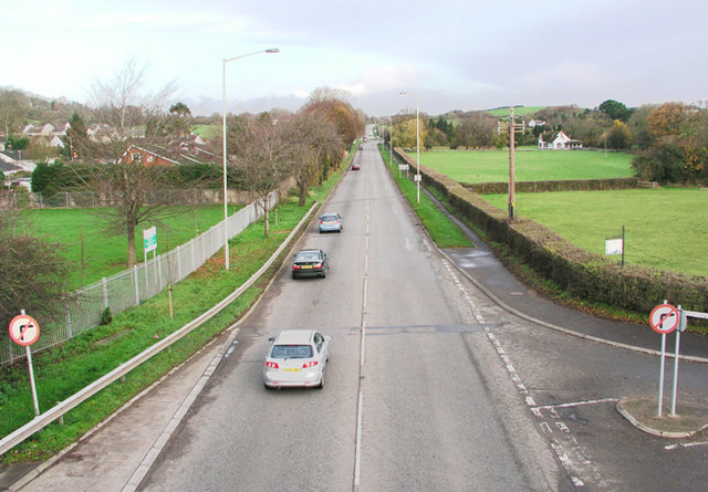 A4050 at Wenvoe Photo taken from the footbridge on a Sunday morning. On weekdays it's nose to tail in both directions